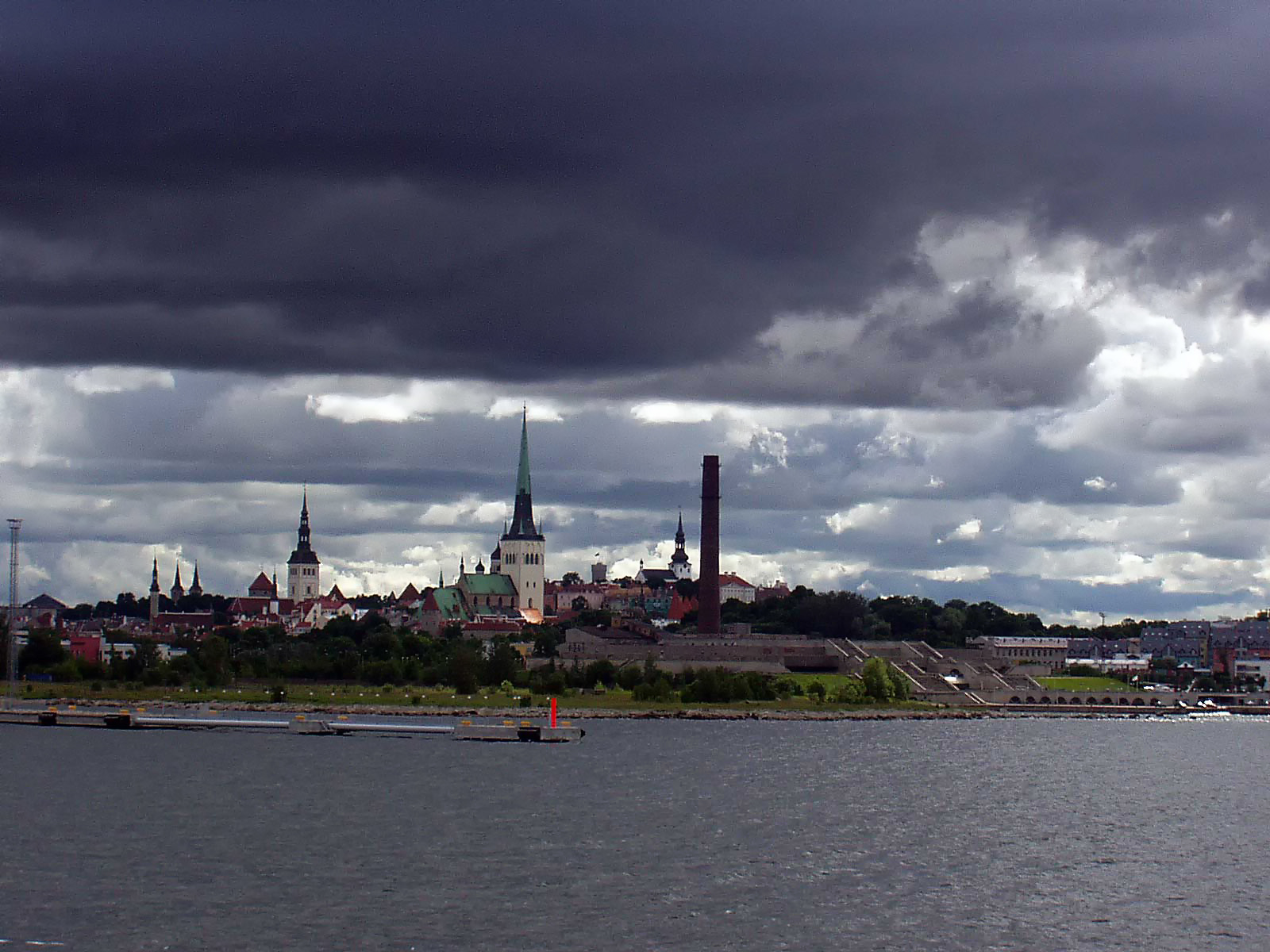 port of Tallinn (Estonia)